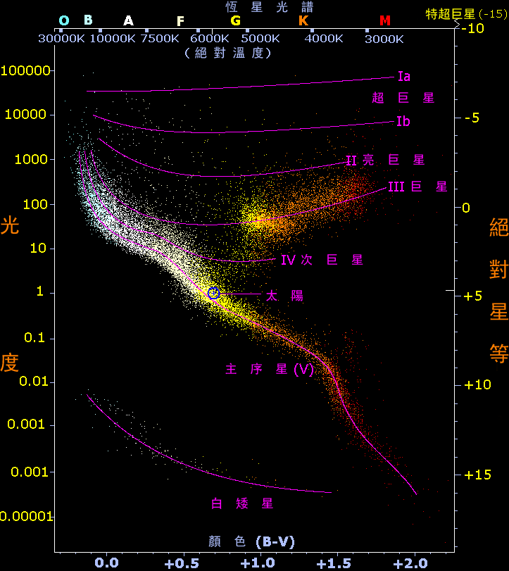 Hertzsprung-Russell diagram. A plot of luminosity (absolute magnitude) against the colour of the stars ranging from the high-temperature blue-white stars on the left side of the diagram to the low temperature red stars on the right side. Modified by .